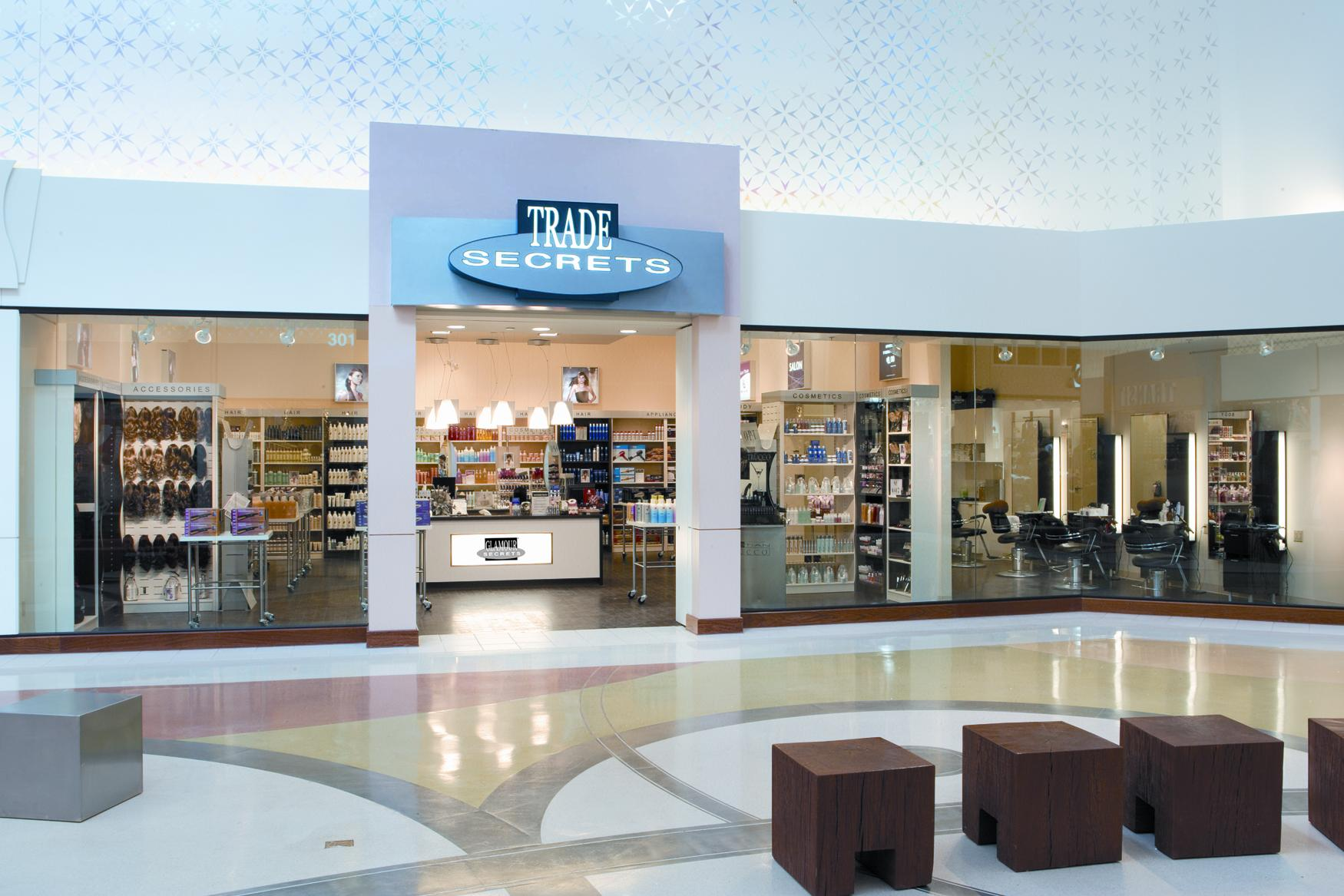 Trade Secrets in Vaughan, Ontario, Canada - A.MA